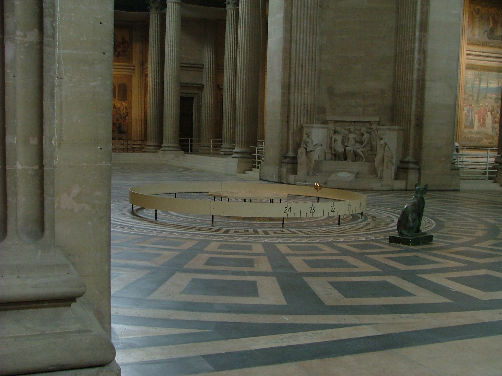 Foucault's Pendulum in Panthéon in Paris, picture taken by user Rsk6400 on June 27,2006